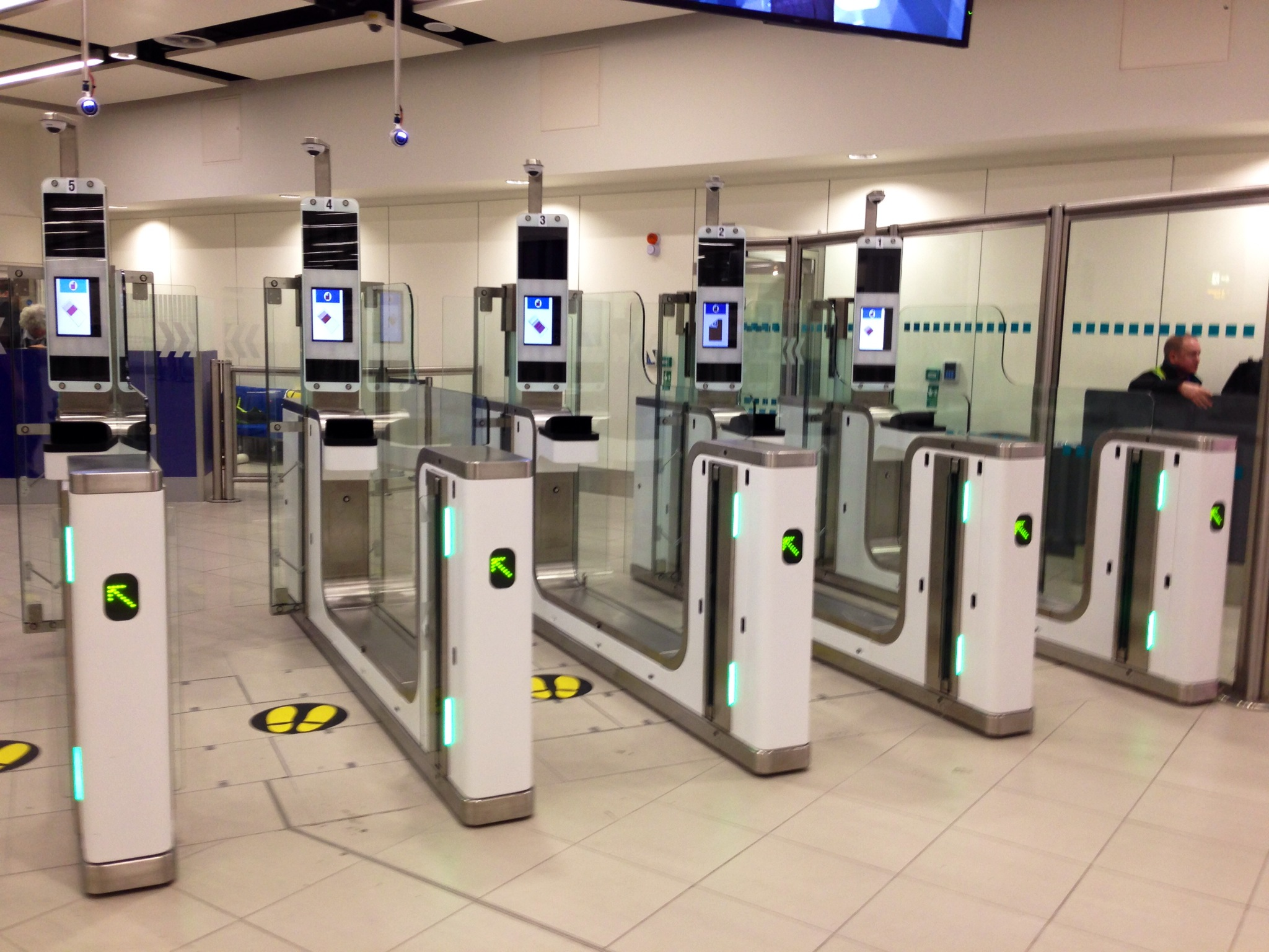 Vision-Box eGates (Automated Border Control) in Gatwick South terminal, used by UKBA.